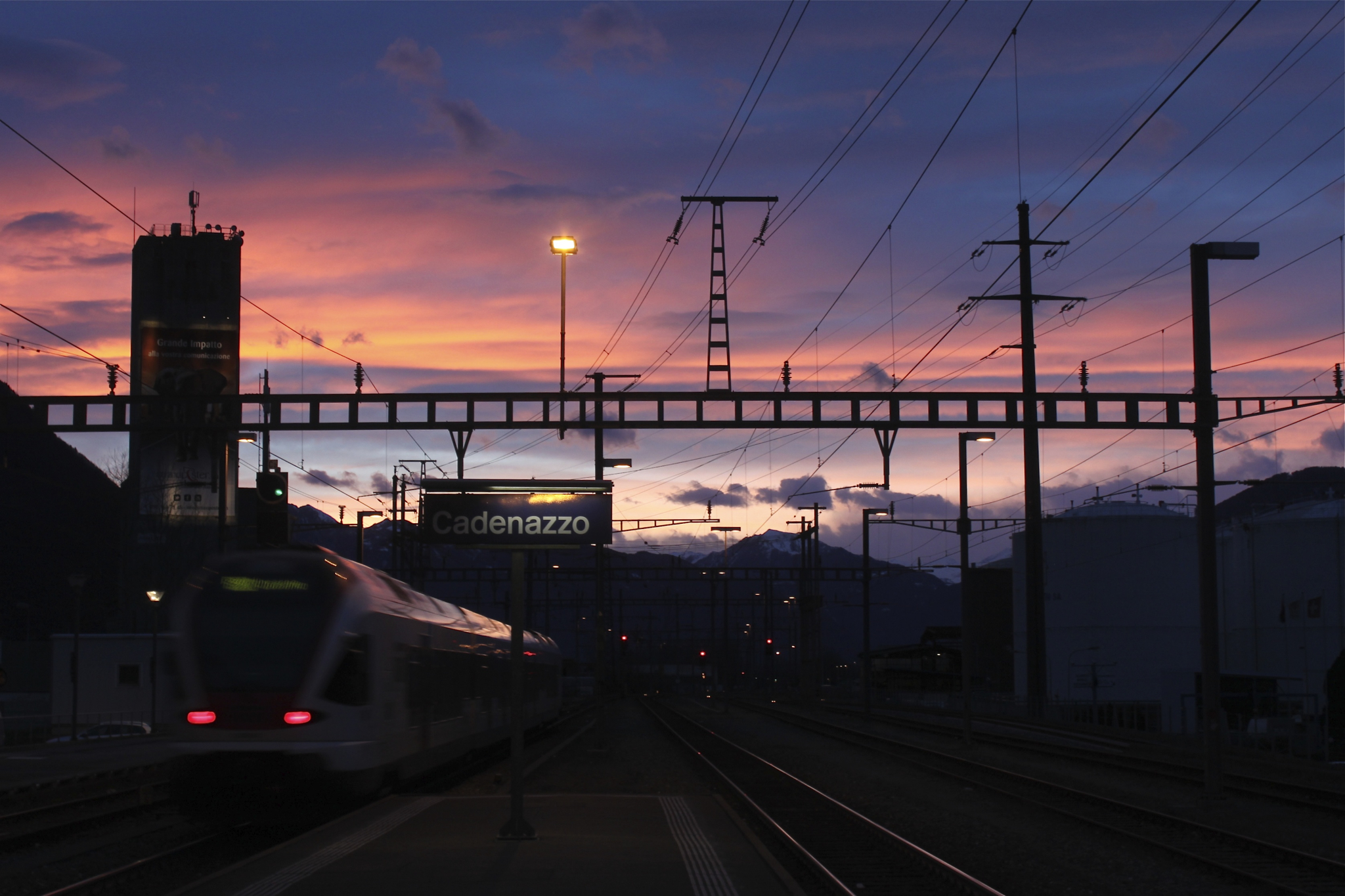 Twilight at Cadenazzo train station.